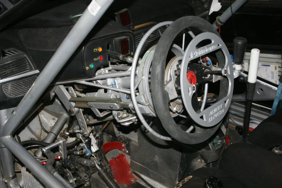 Albert Llovera car, Fiat Grande Punto S2000.